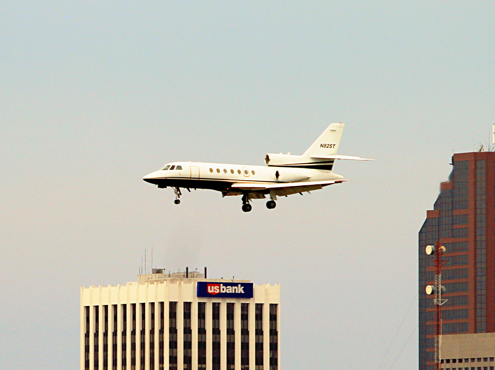 N82ST, a 1982 Dassault Falcon 50, coming in for a landing at St Paul Downtown Holman Field in Saint Paul, MN.